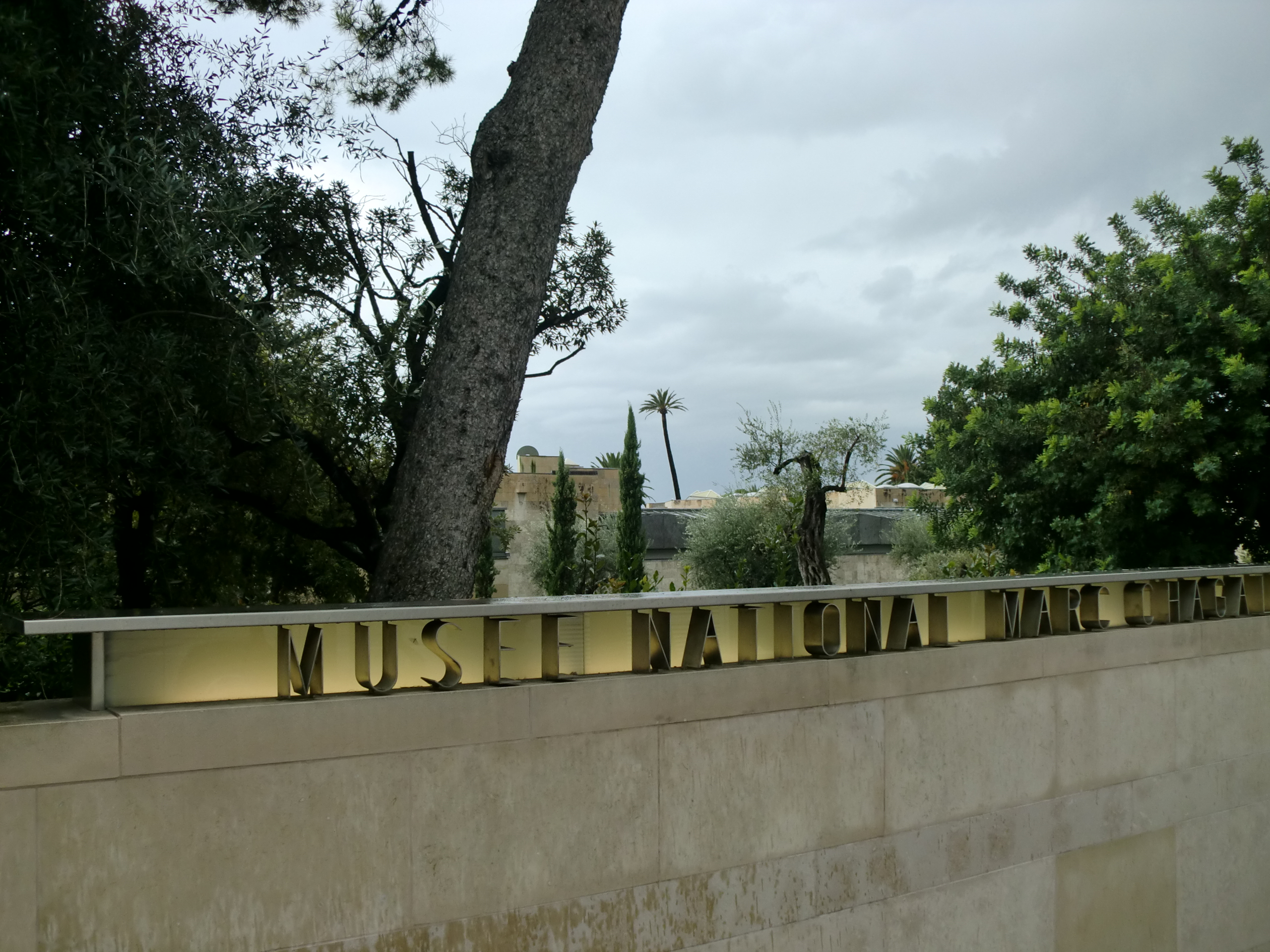 Musée national Marc Chagall (Nice, France)